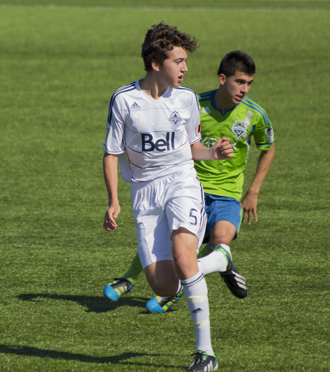 Dario Zanatta, then of the Vancouver Whitecaps Residency, in a USSDA academy game against Seattle on March 30, 2013. Own work, public domain.